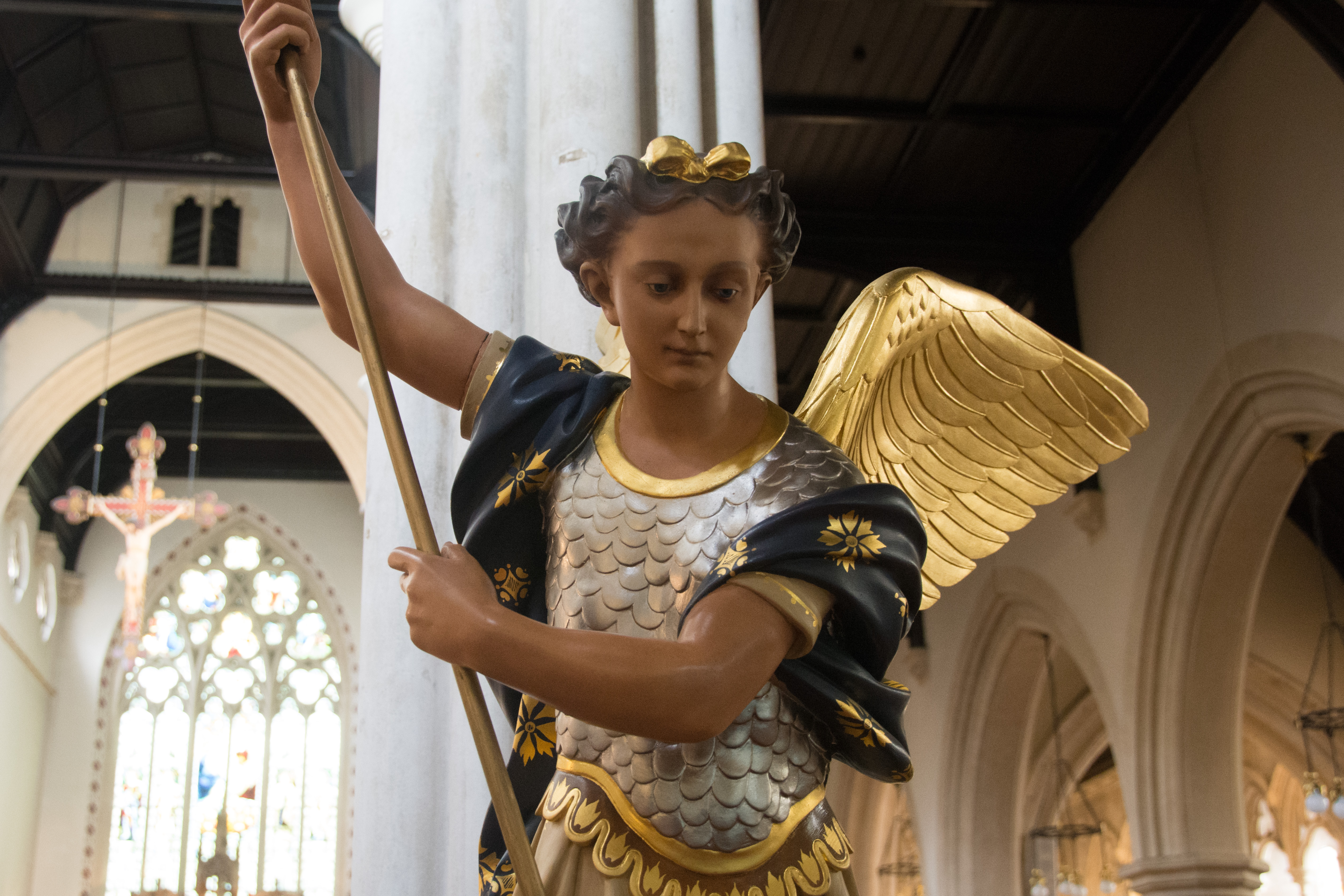 St Mary's of the Angels